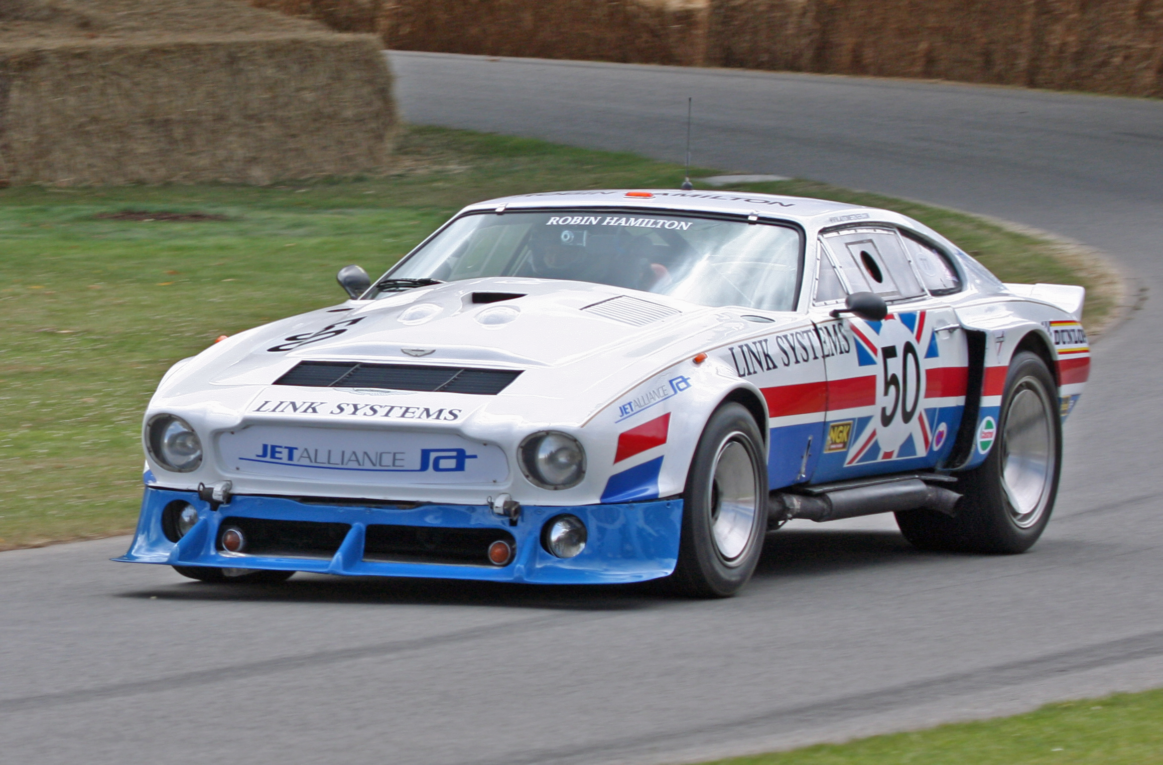 Aston Martin RHAM/1 at Goodwood festival of speed 2009. This car raced in 1979 24 Hours of Le Mans ( By exfordy on Flickr. Original at